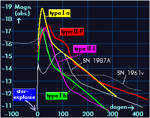 Light curves of supernovae.